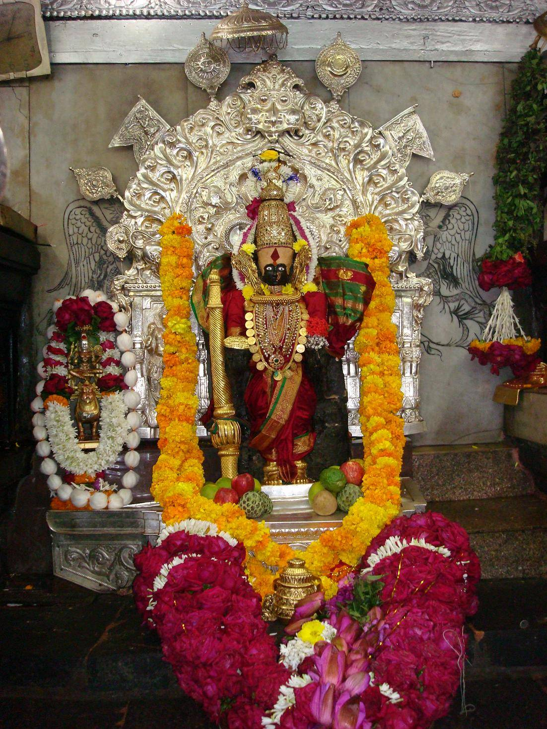 Ambabai of Kolhapur also known as Karavirvasini